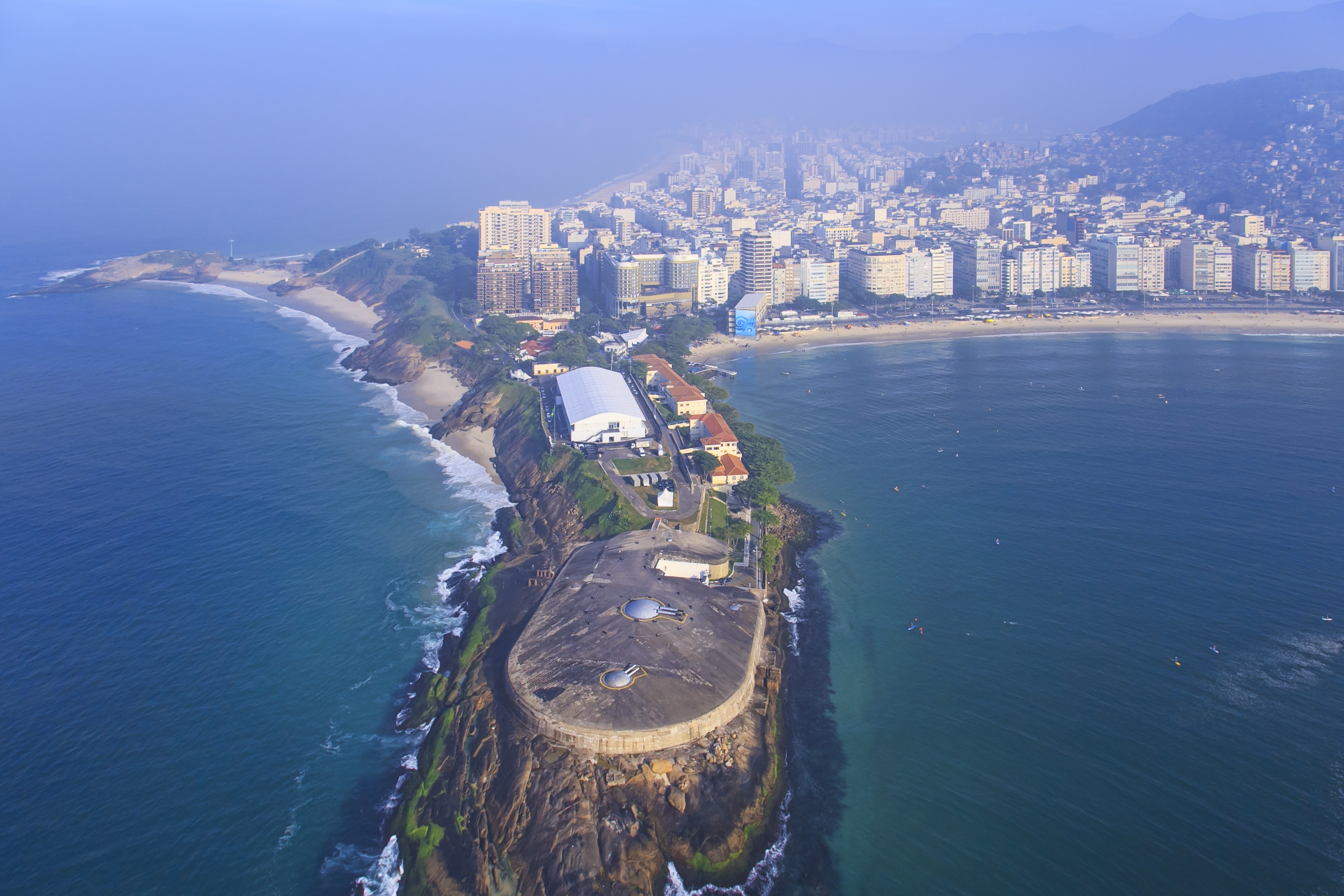 Forte de Copacabana 2014 Rio de Janeiro 2014 aerial